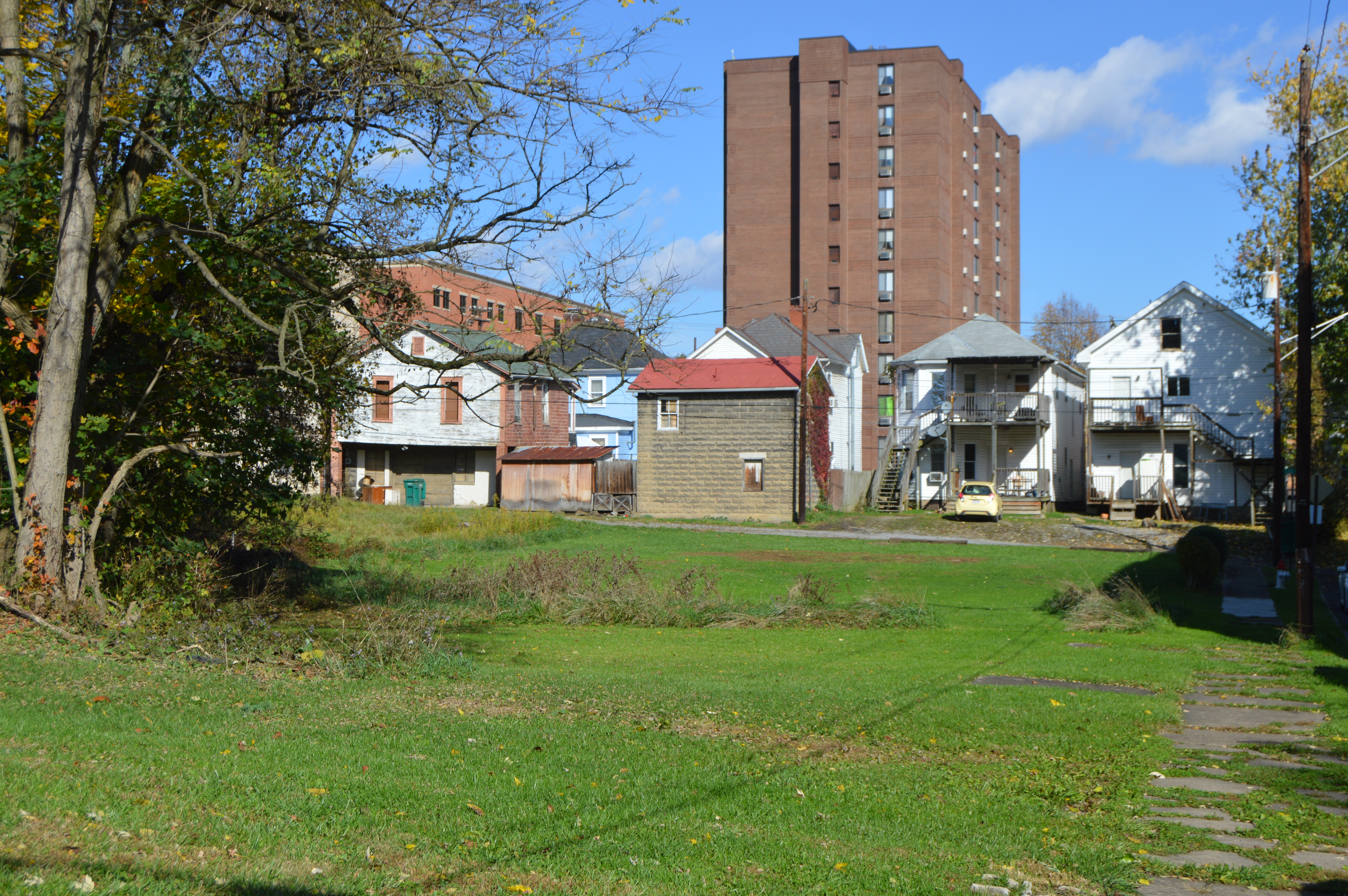 An empty lot on the southwestern corner of Lee Avenue and Ben Street in Clarksburg, West Virginia, United States. This was formerly the location of the Trinity Memorial Methodist Episcopal Church; built in 1902, it was listed on the National Register of Historic Places in 1984, and it remains on the Register, despite its destruction.